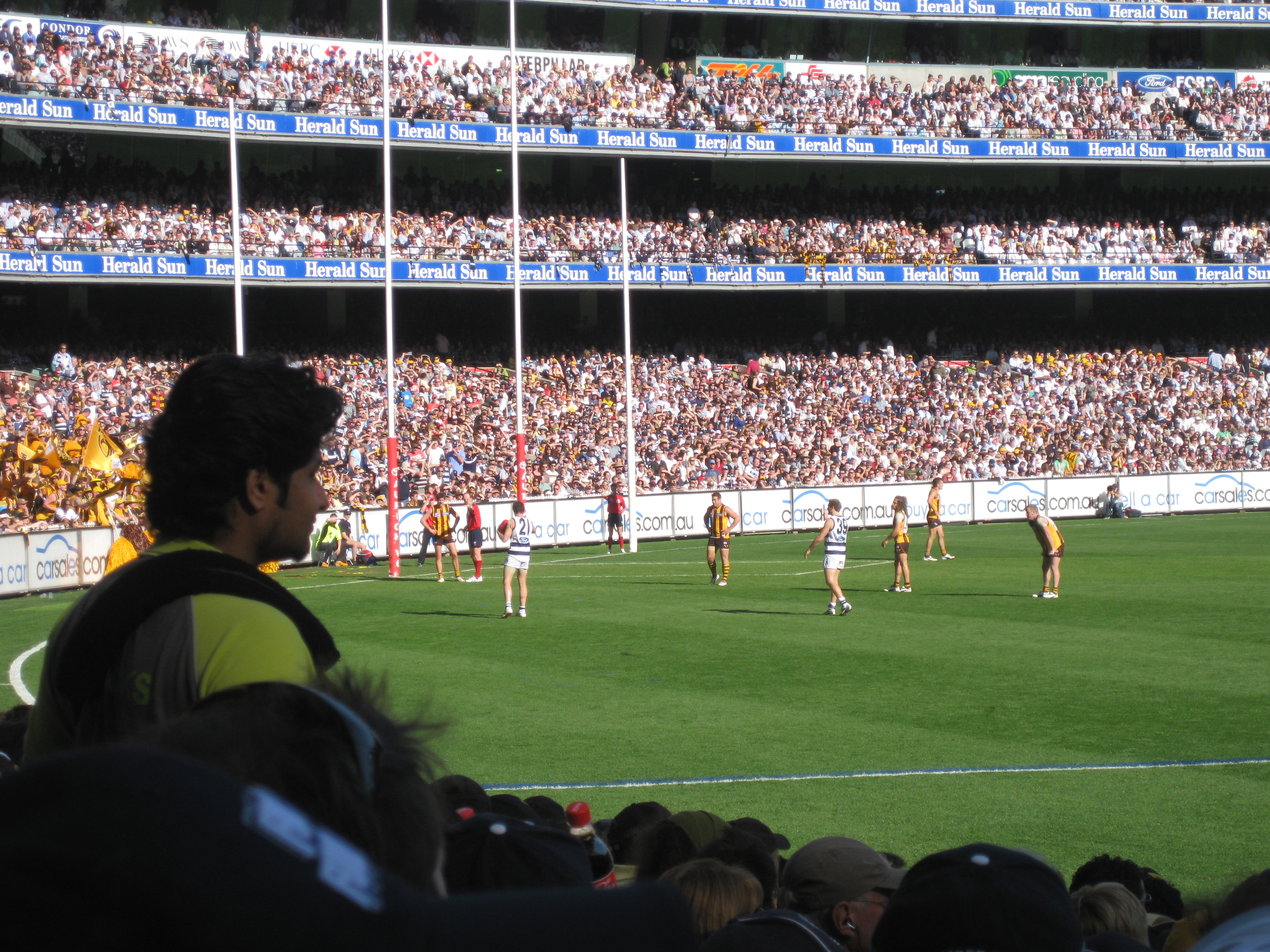 Cameron Mooney lines up for what to be another behind, during the 2008 AFL Grand Final